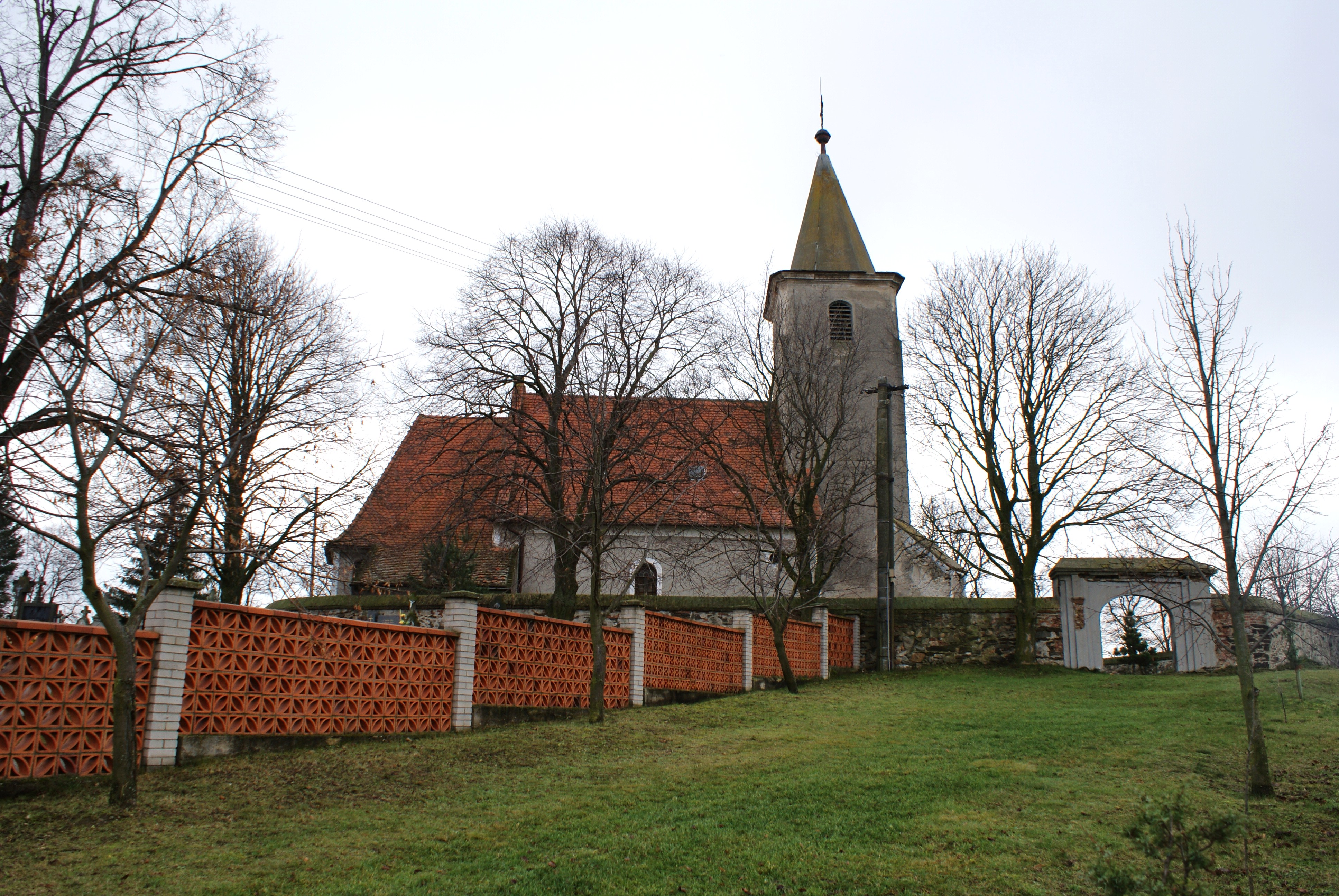 Dlhá, a village in Trnava district, Slovakia, the old church above the village.